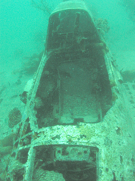 Aichi E13 "Jake" floatplane wreck, cockpit detail, Kavieng harbor, New Ireland. Papua New Guinea.